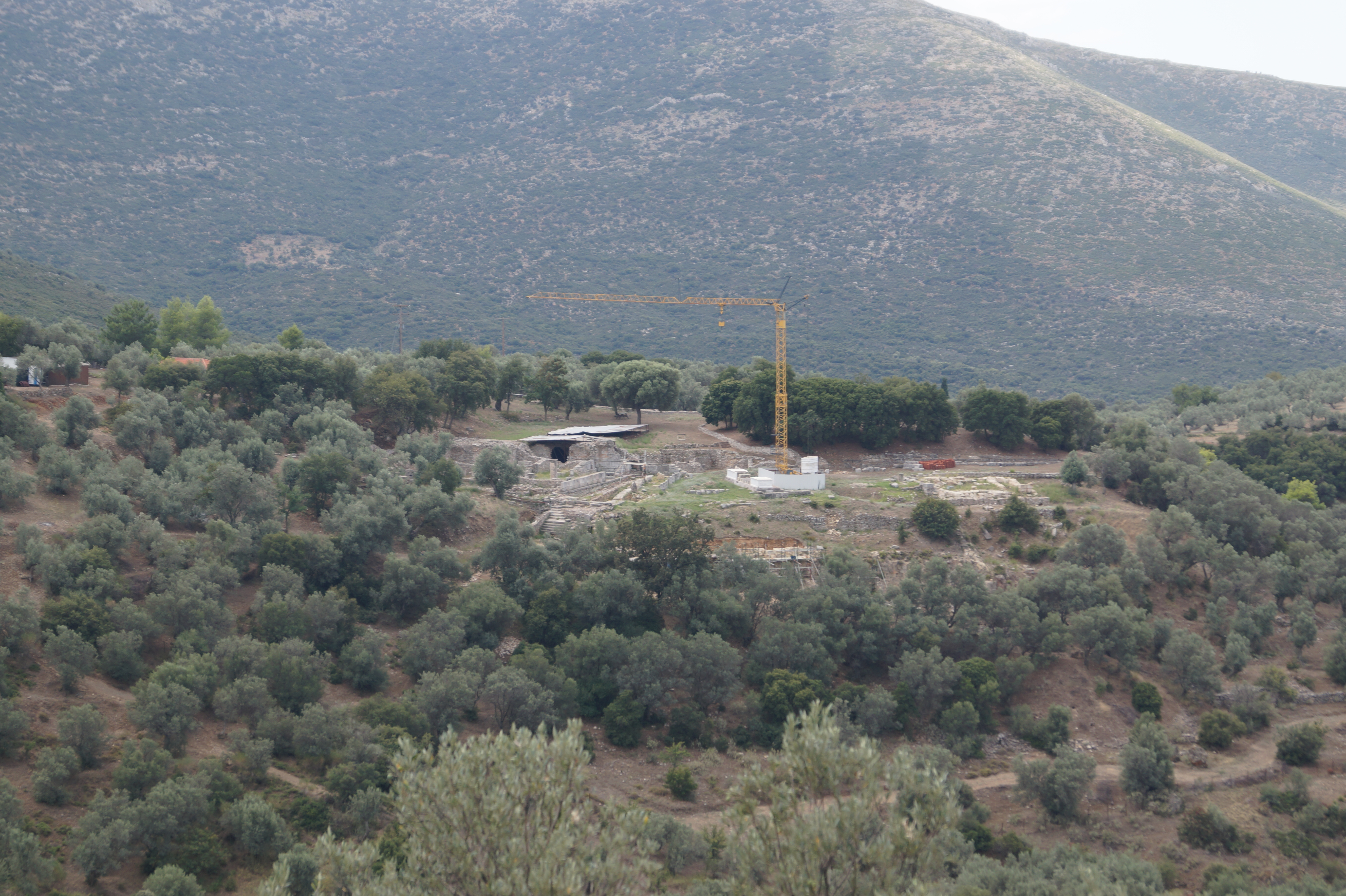 Epidauros, Argolis, Greece: View from the western slope of Mount Titthion on the Sanctuary of Apollo Maleatas.